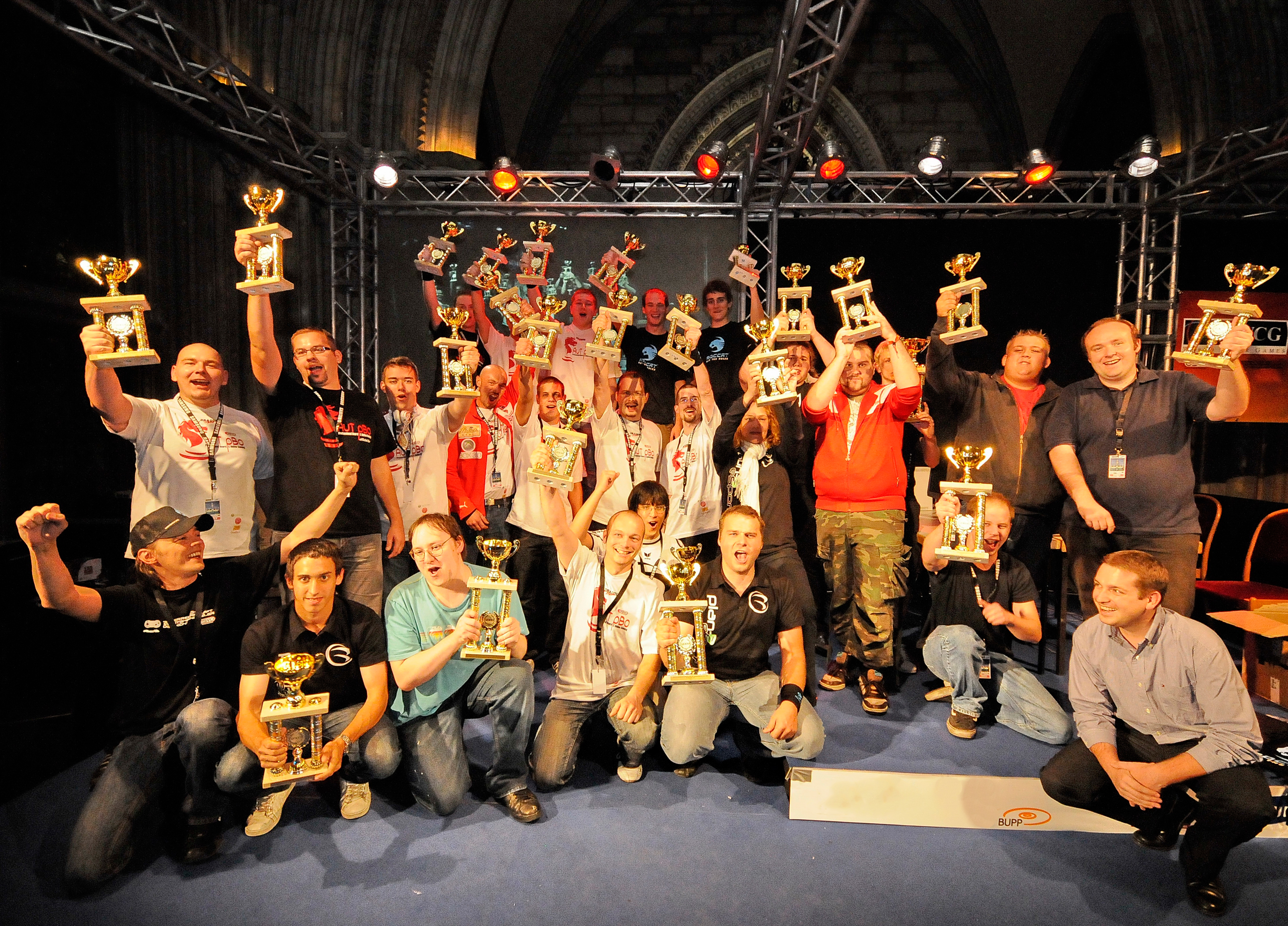 Winners of KSM 2009